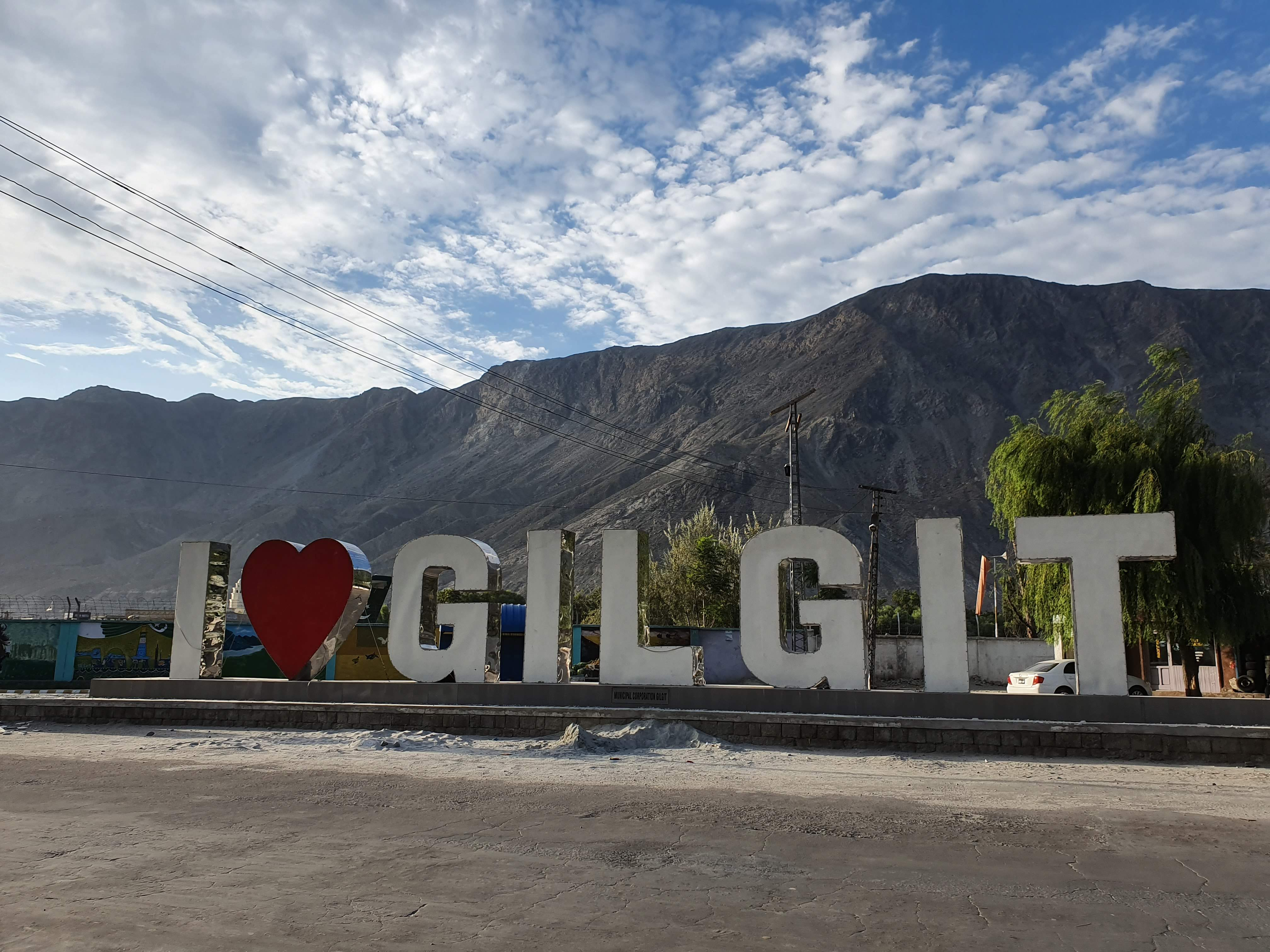 I Love Gilgit Sign at Airport Road GIlgit